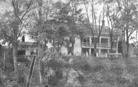 =Marantette Manor, Mendon MI Cropped version